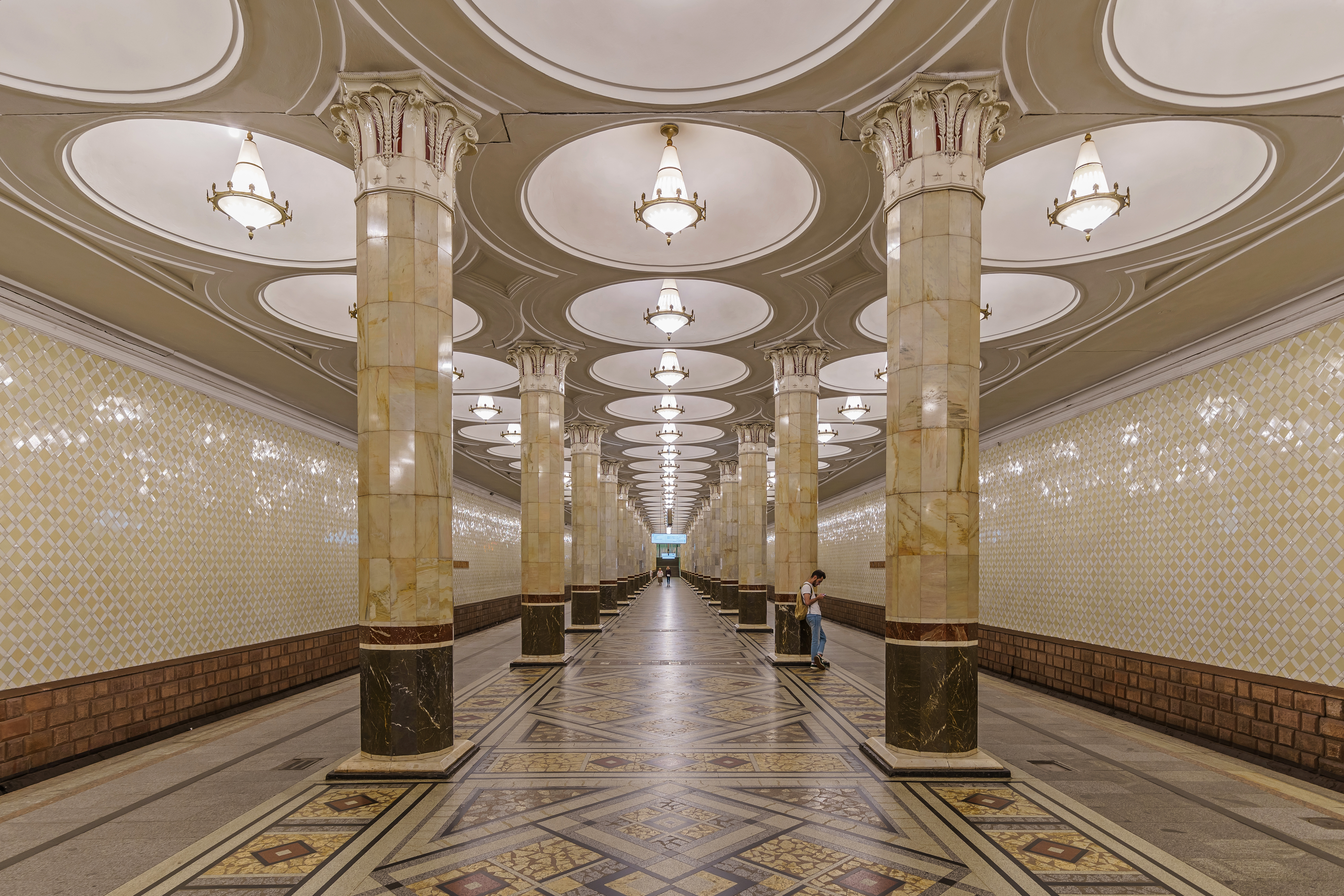 Platform of Kievskaya (FL) metro station in Moscow, Russia.